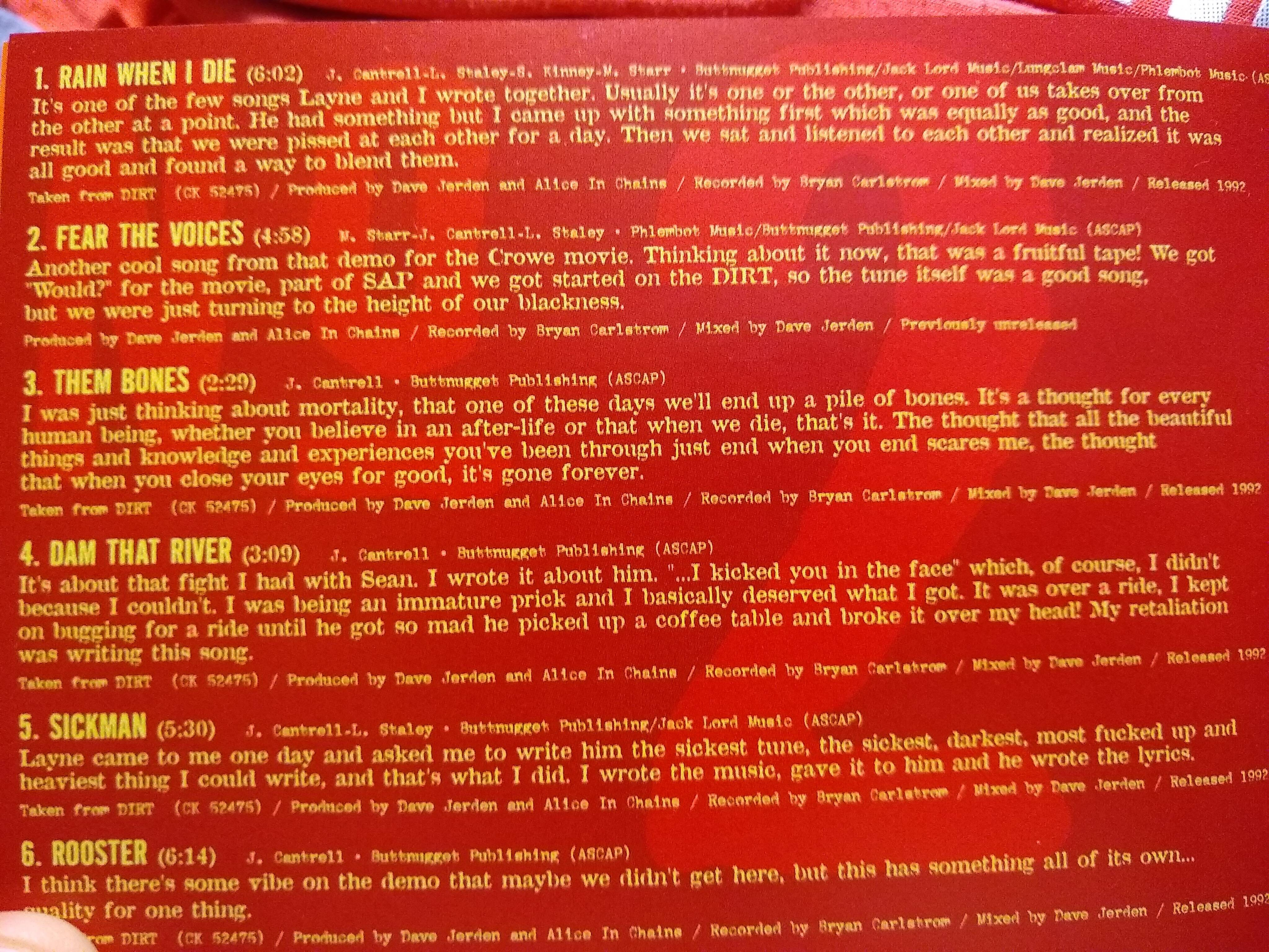 Alice in Chains - Music Bank. Liner notes